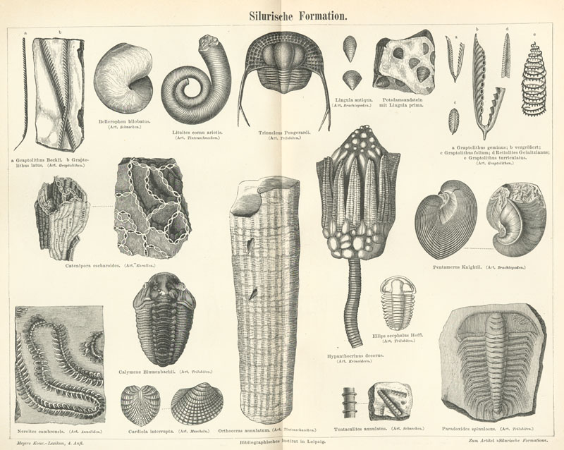 Fossils of the Silurian age